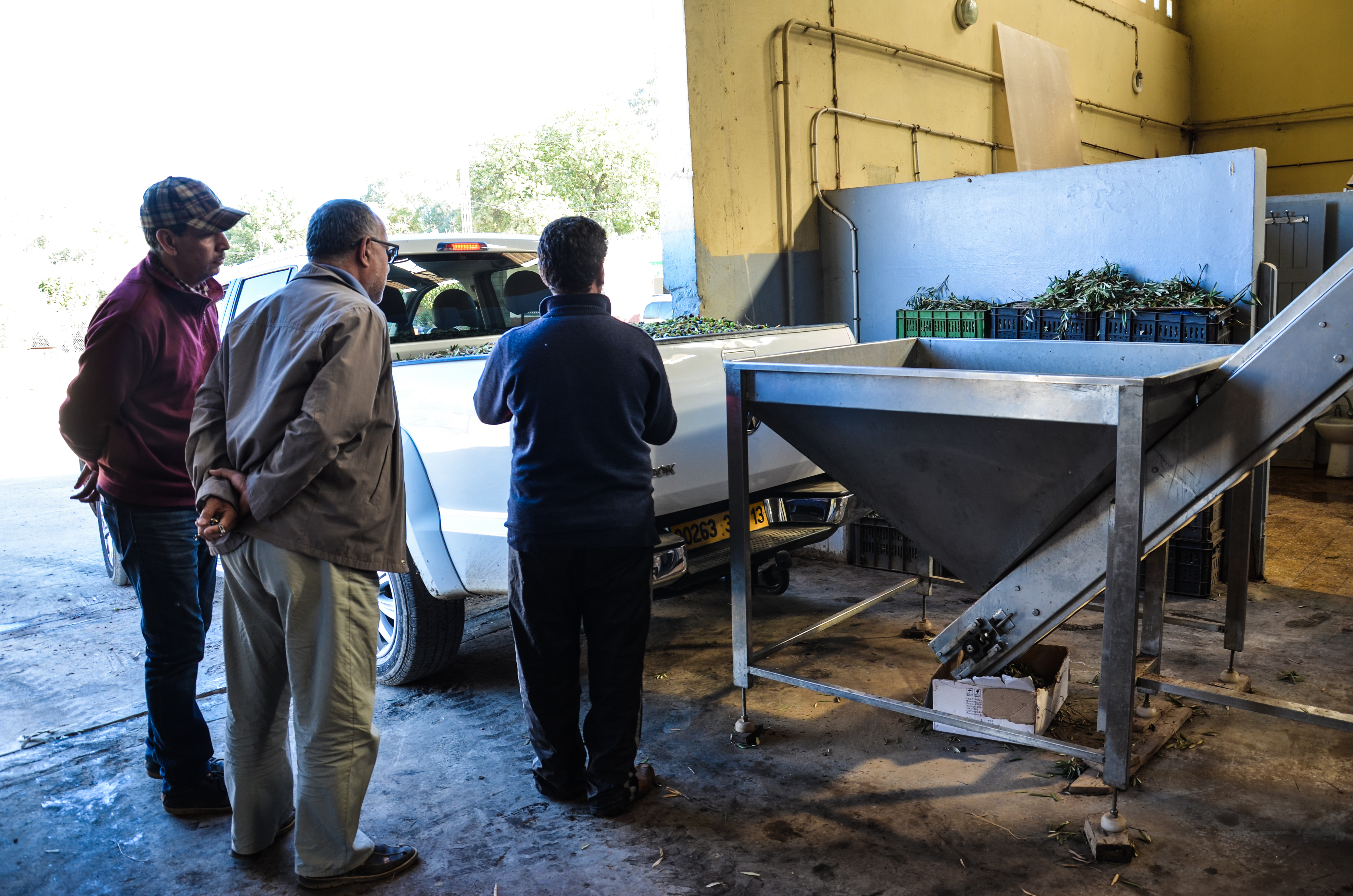 This is an image of "African people at work" from Algeria